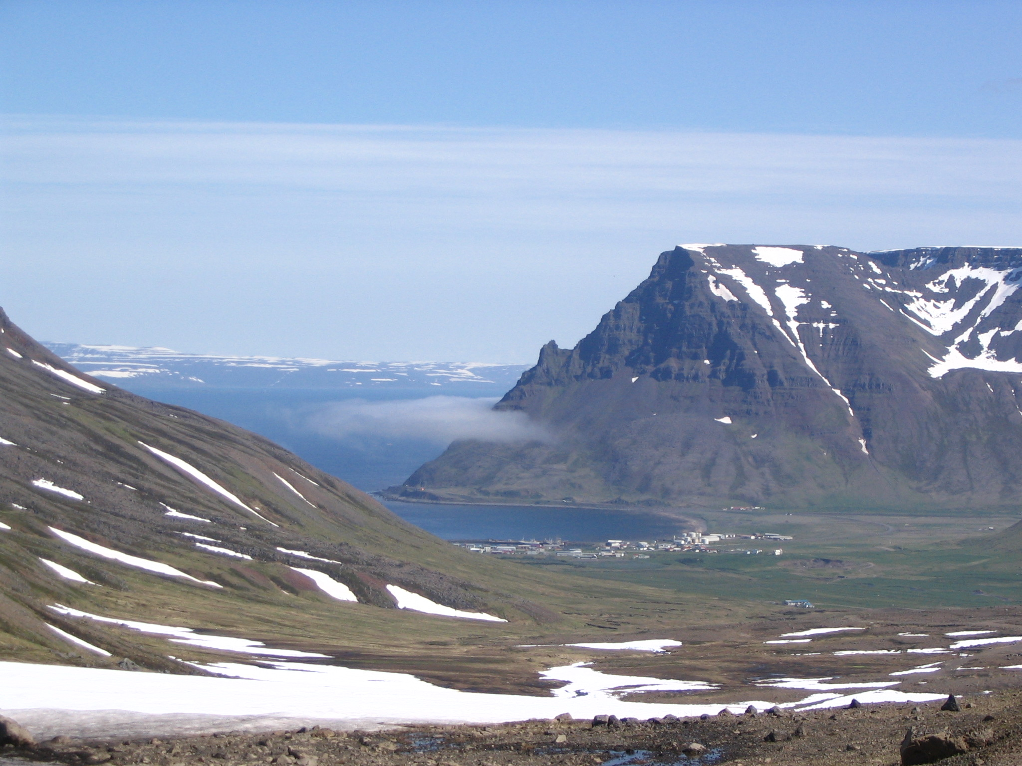 View towards Bolungarvík